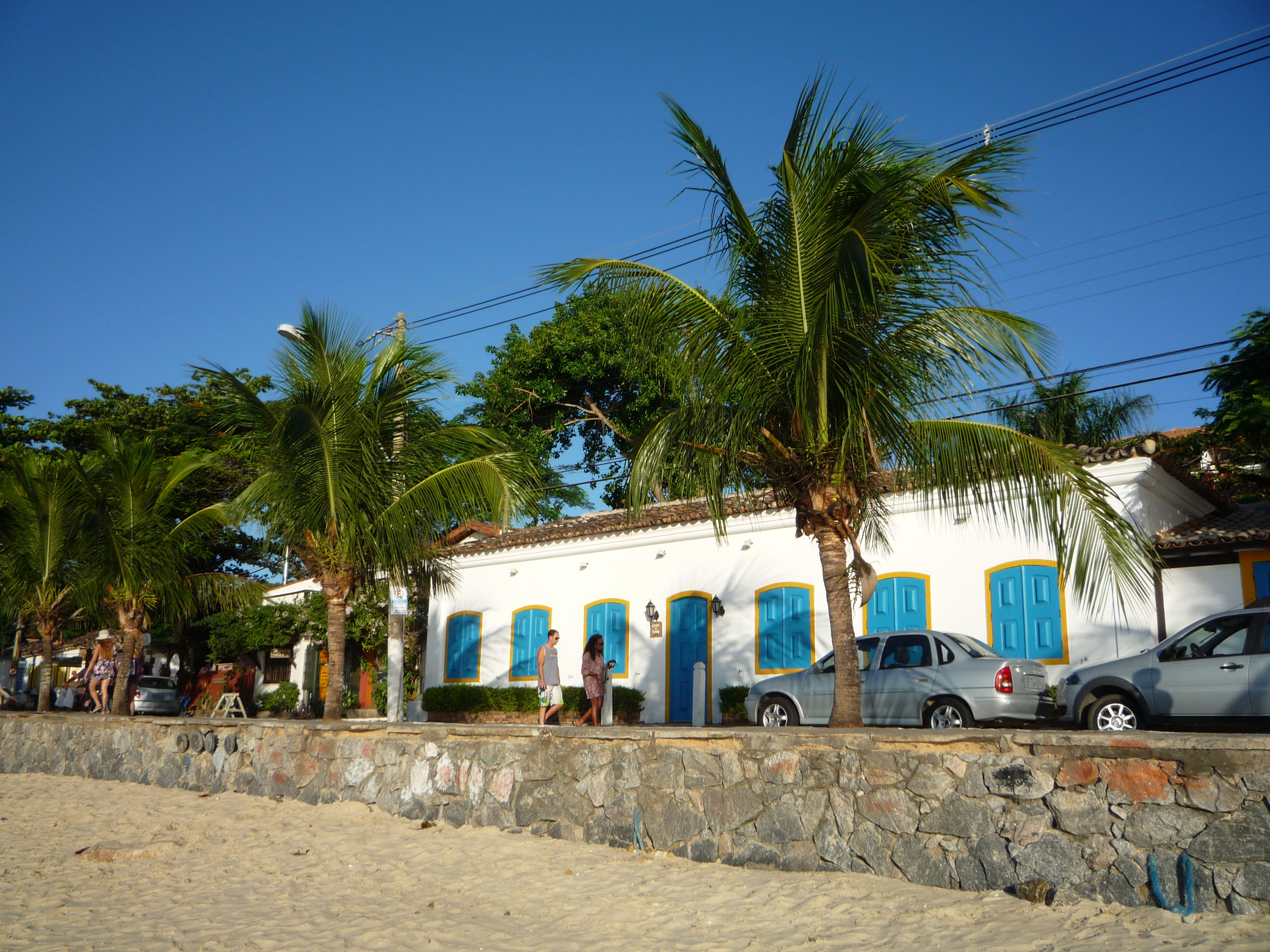 Casa do Sino (Bell's House) in Armação beach in the centre of Búzios, Brazil